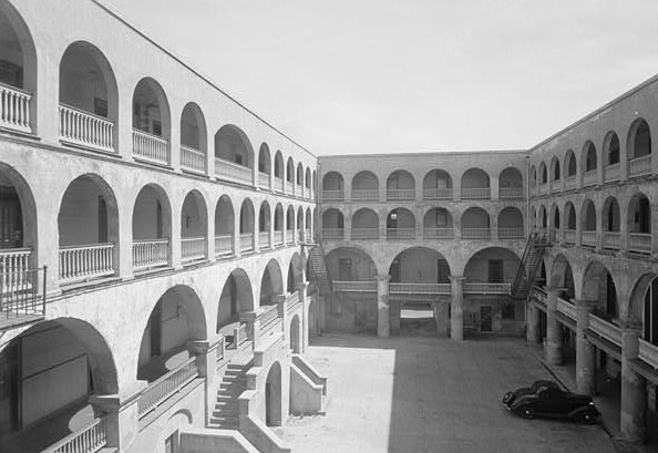 South Carolina State Arsenal, Marion Square, Charleston (Charleston County, South Carolina) (cropped)